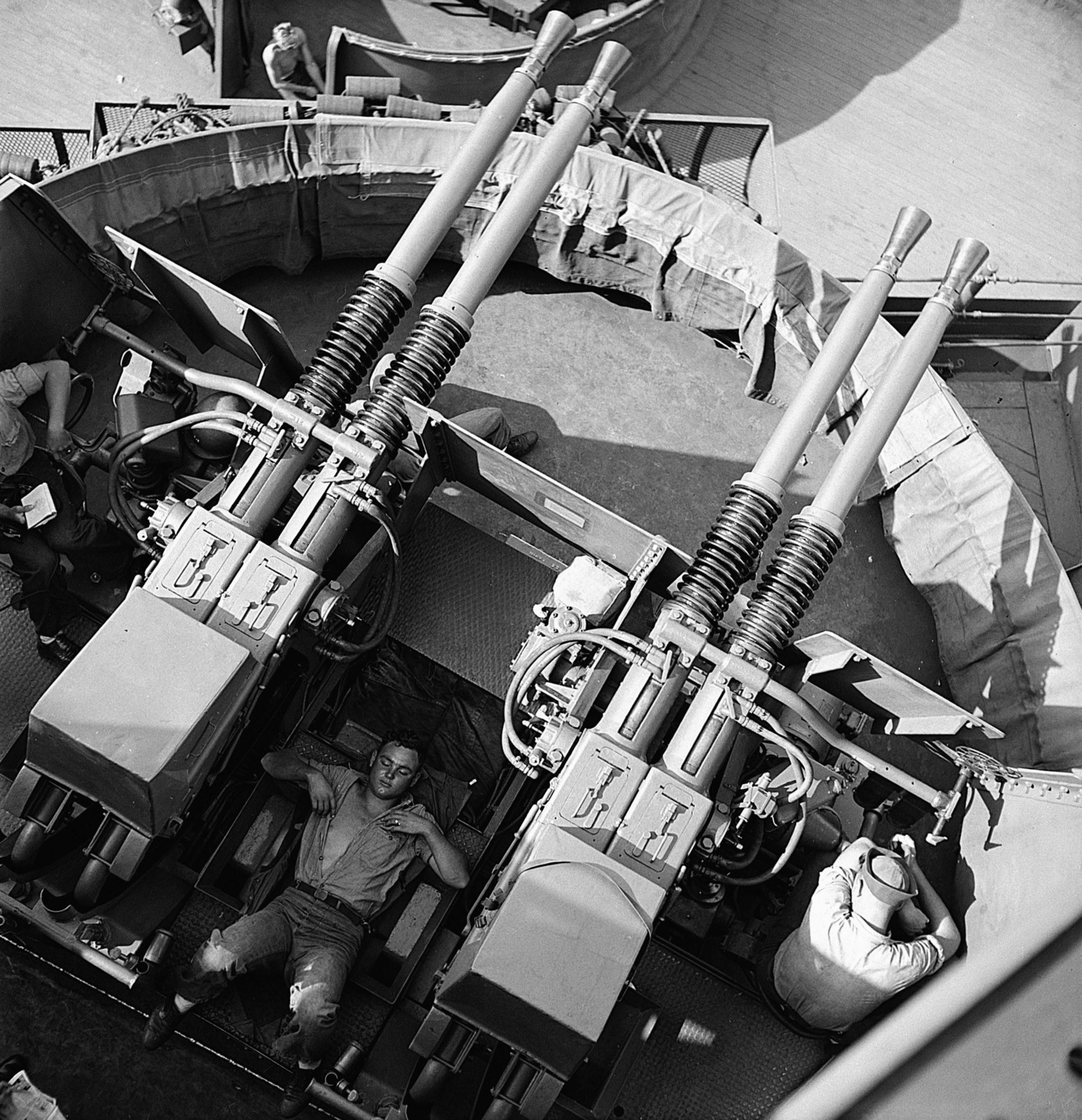 A U.S. Navy sailor is asleep in a 40 mm quadruple gun mount on board the battleship USS New Jersey (BB-62) in December 1944.